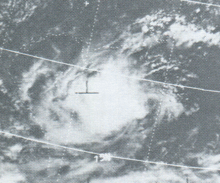 This ESSA 9 weather satellite image of Typhoon Ora was taken on June 26, 1972 at 0727 UTC